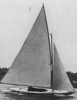 8 Metre Gold medal winner SYLDRA during the 1920 Summer Olympics